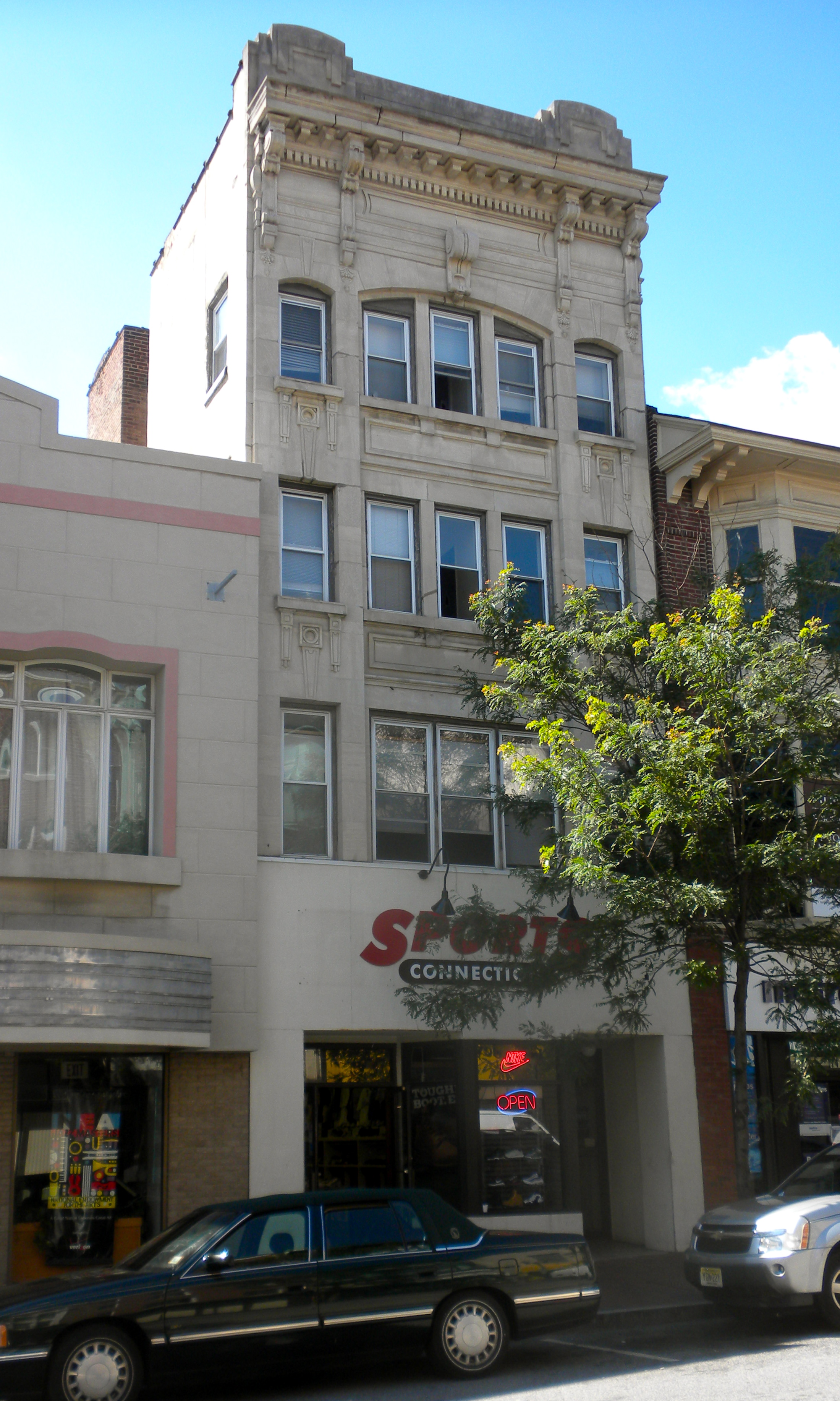 Henry Townsend Building on the NRHP since January 30, 1985. At 709 N. Market St., Wilmington, Delaware